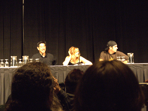 myth busters